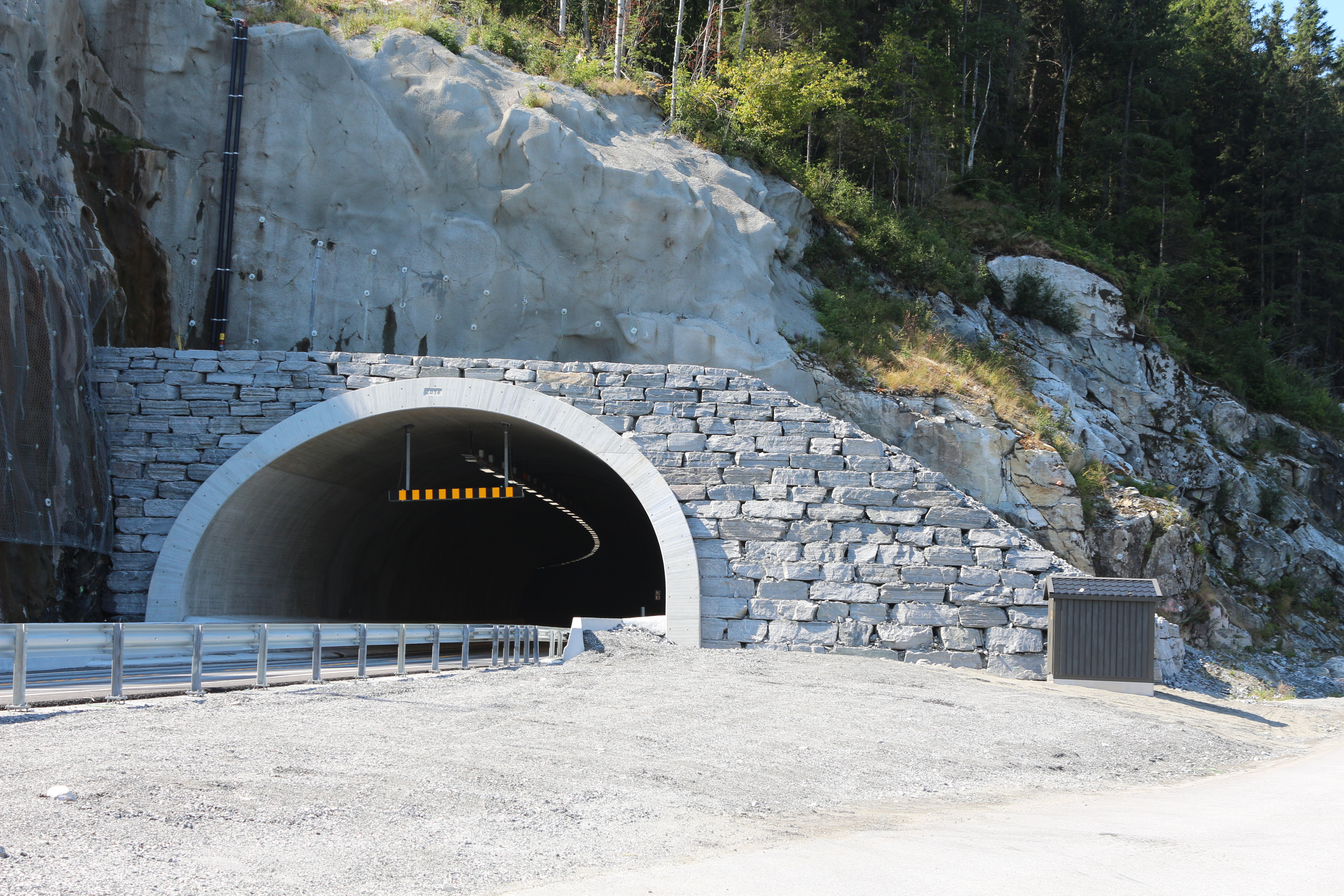 Vangberg Tunnel, Rv60, Olden, Stryn, Norway